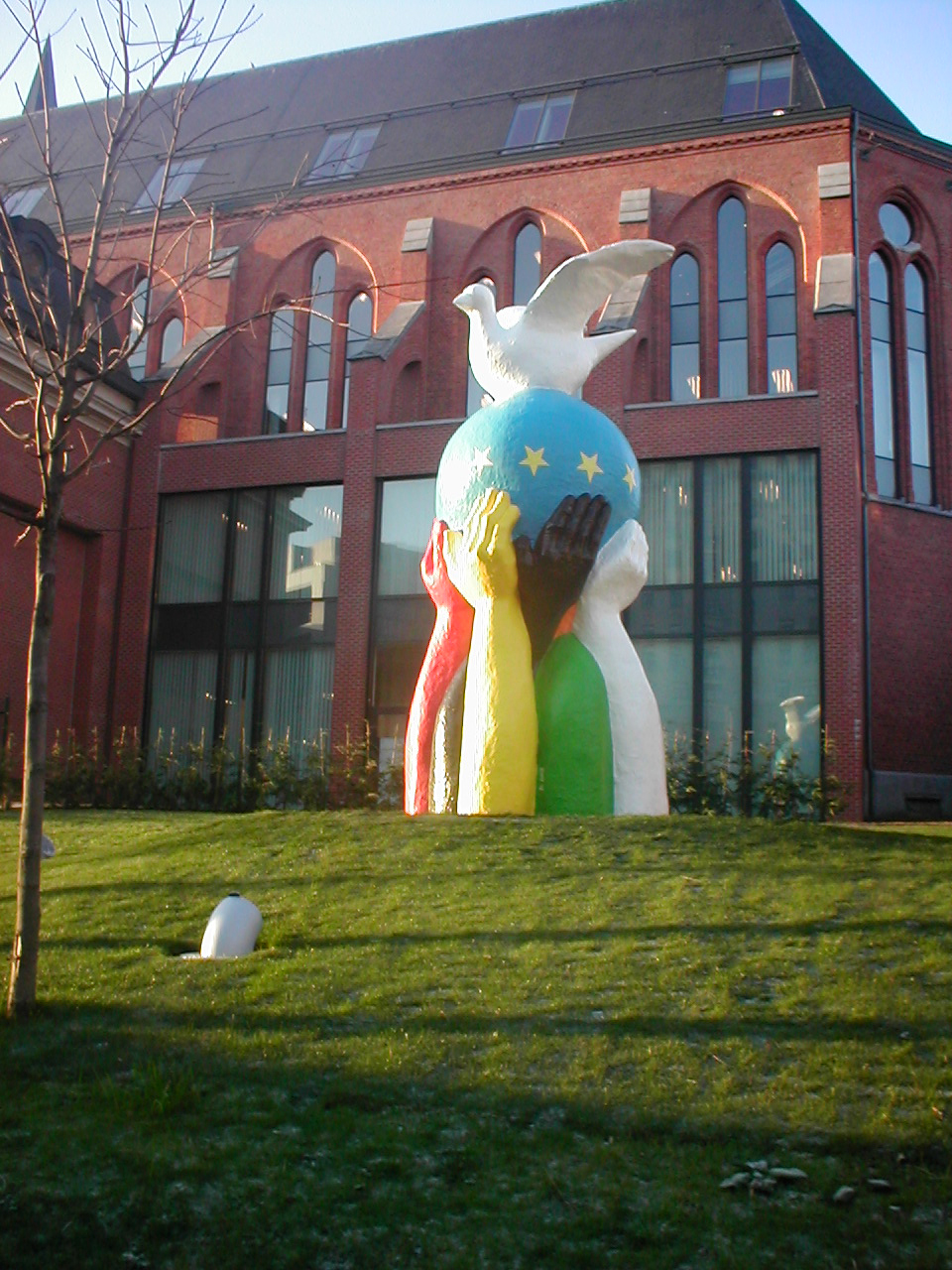 Monumental work dedicated to Europe by the French sculptor Bernard Romain. It was placed at the heart of the European quarter and was inaugurated on 9 December 2003 by Neil Kinnock, then Vice-President of the Commission, and Viviane Reding, Commissioner of Culture. The Statue was manufactured, modelled, polished and painted by children with challenged vision of different cultures under the supervision of Bernard Romain.